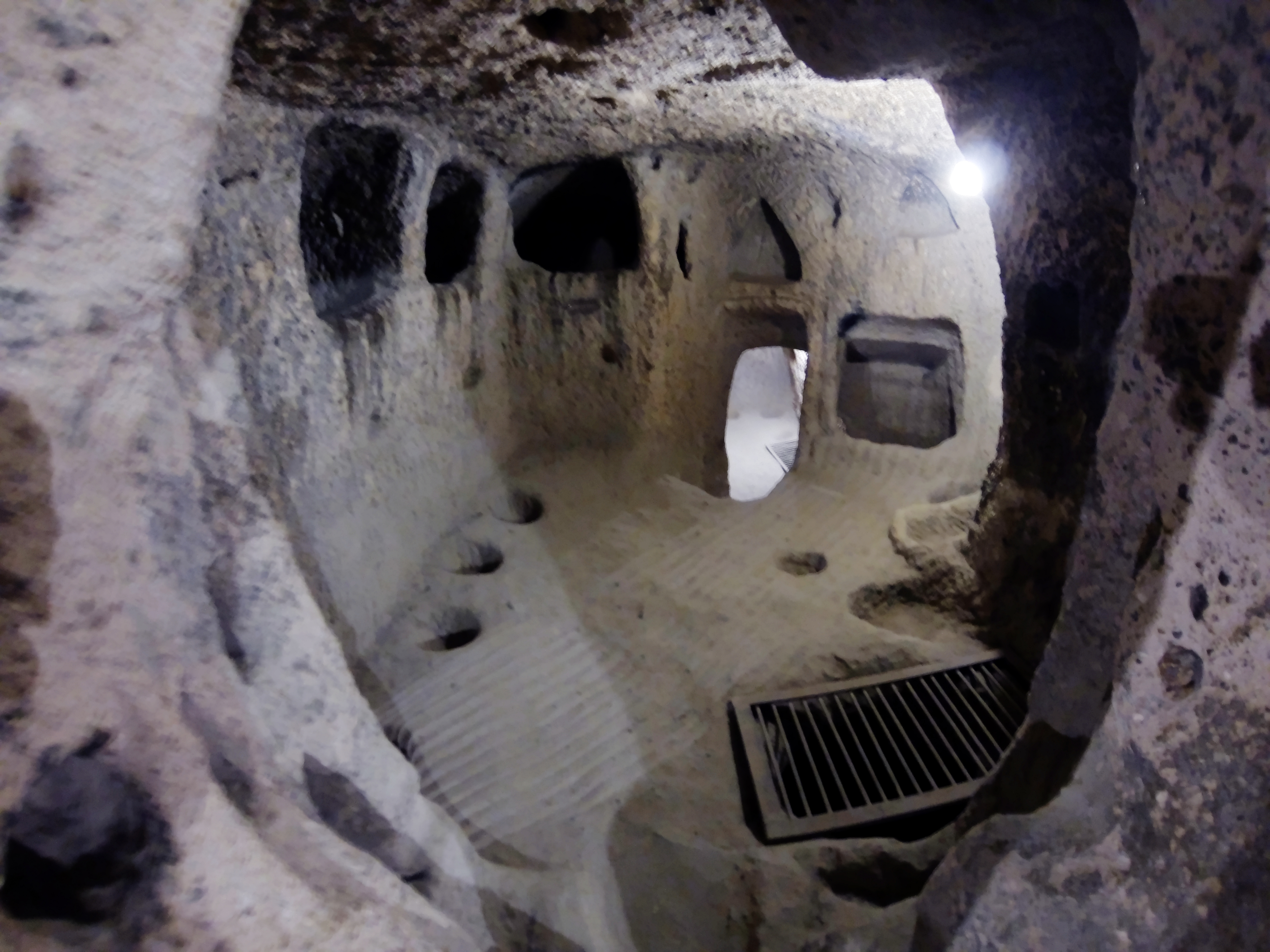 Kaymakli Underground City in Cappadocia, Turkey. Christians fled the enemies and hid in this underground cities.